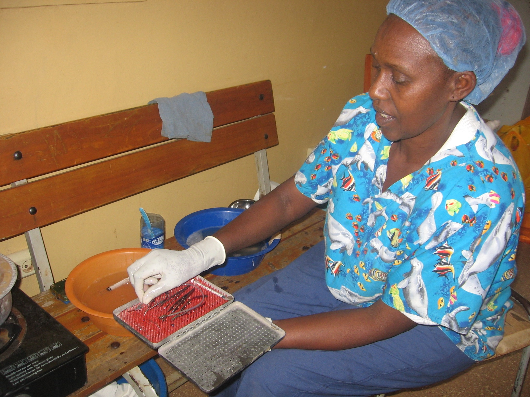 This is an image of "African people at work" from Ethiopia